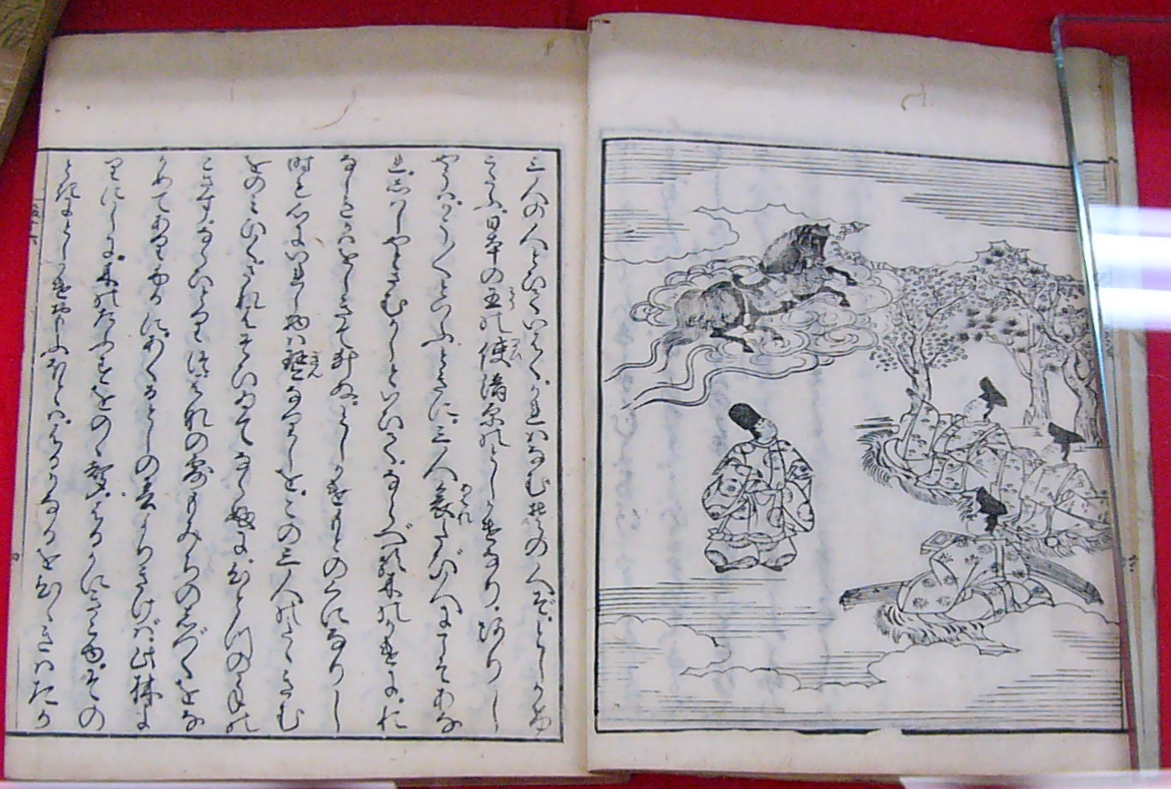 Two pages of book Utsubo Monogatari: a roman in 10th century, middle Heian period, The oldest full-length roman in Japan. This edition was published in ACE 1809, woodblock printing.